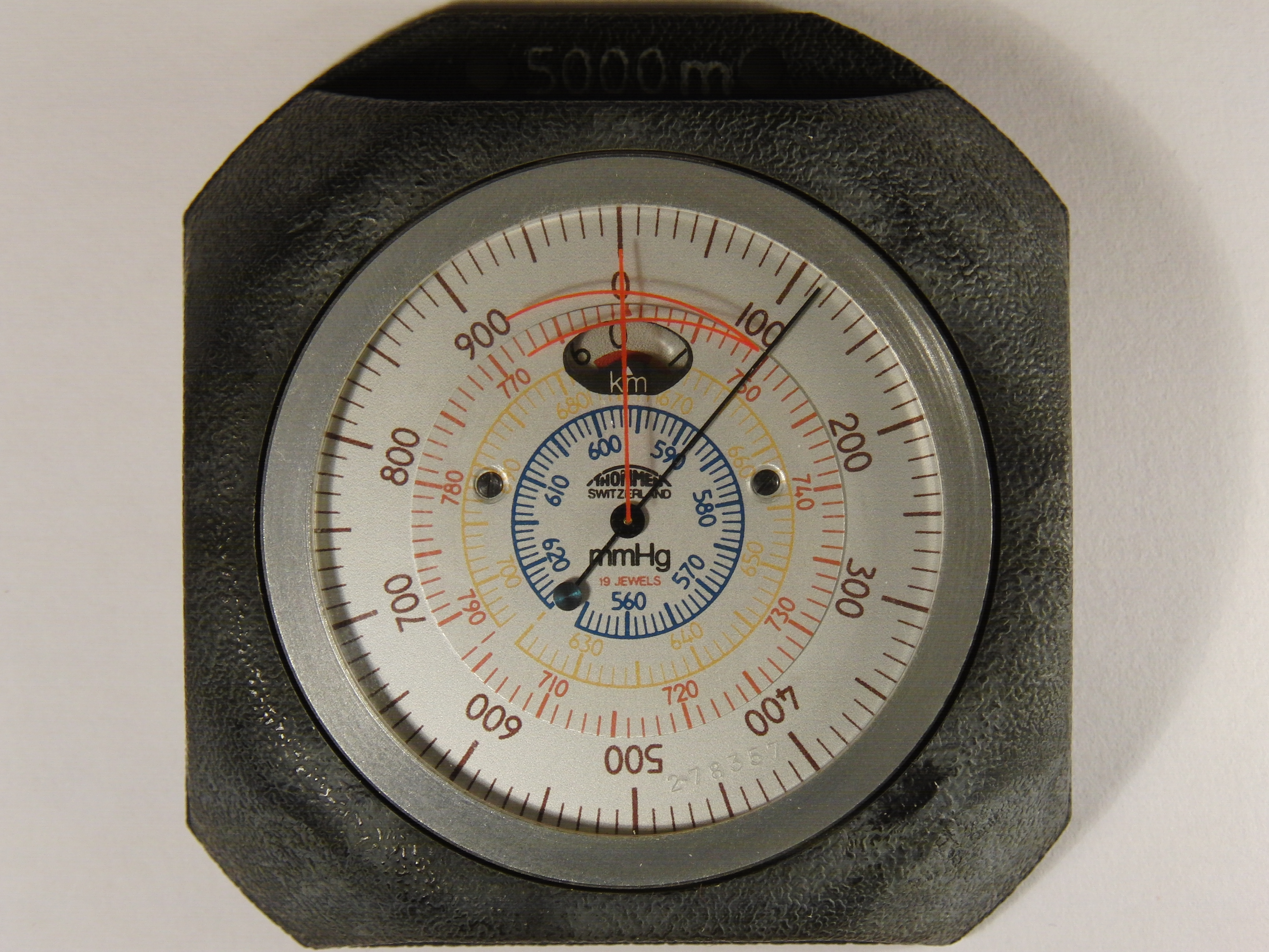 altimeter